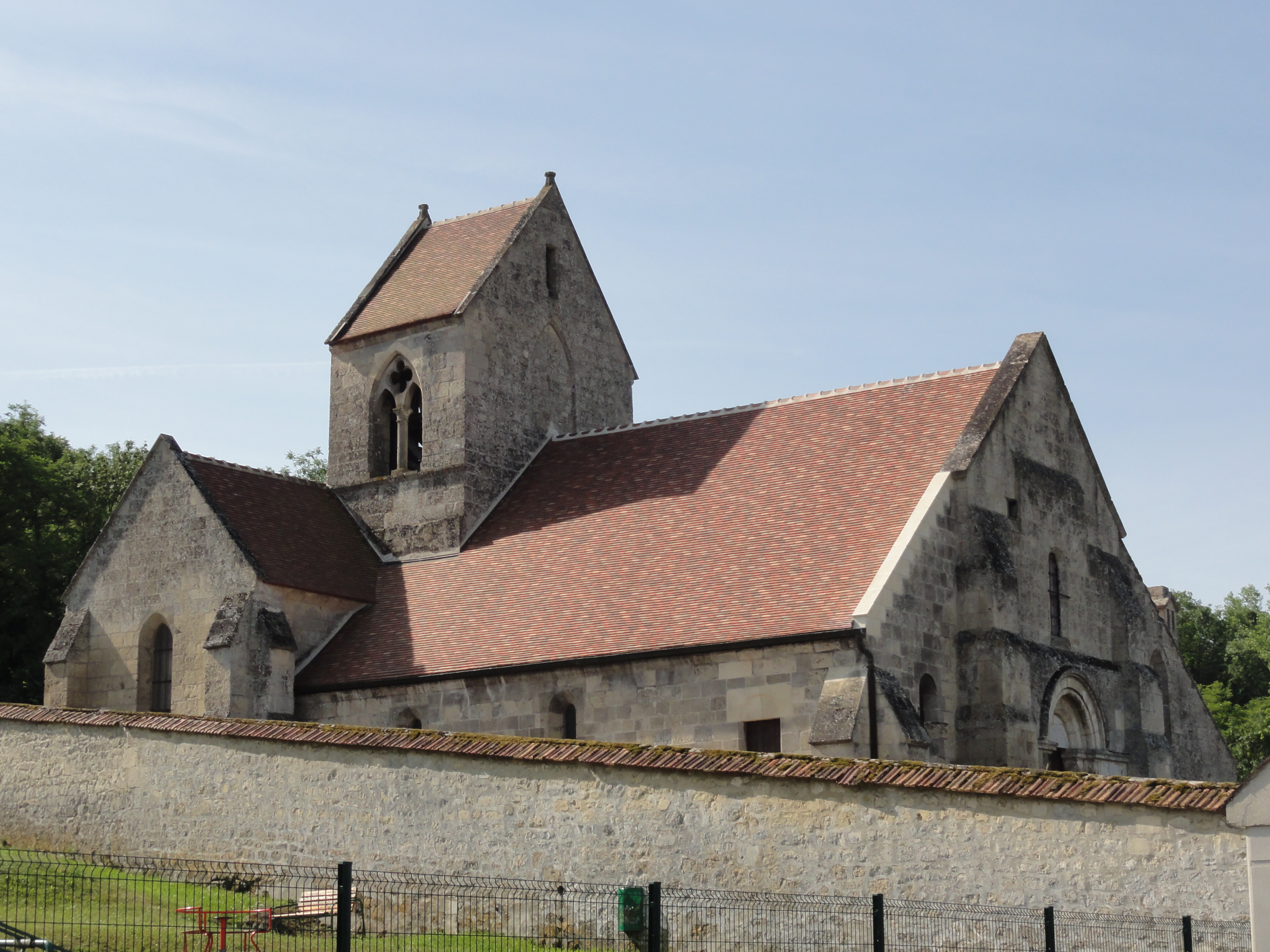 Brenelle (Aisne) église